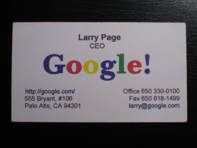 Larry Page business card